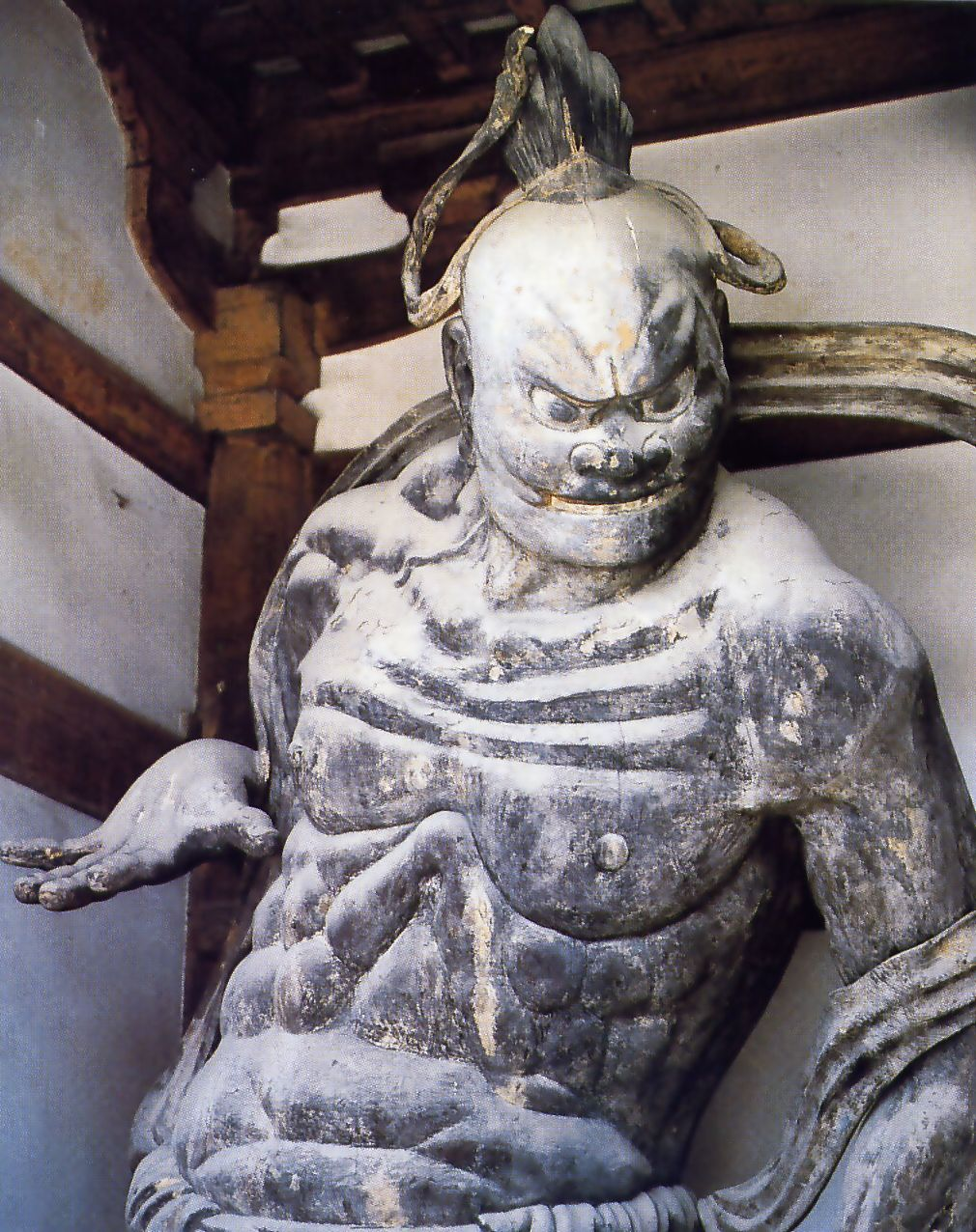 Nio, 711, Clay, 379 cm high. Horyu-ji, Ikaruga, Nara.